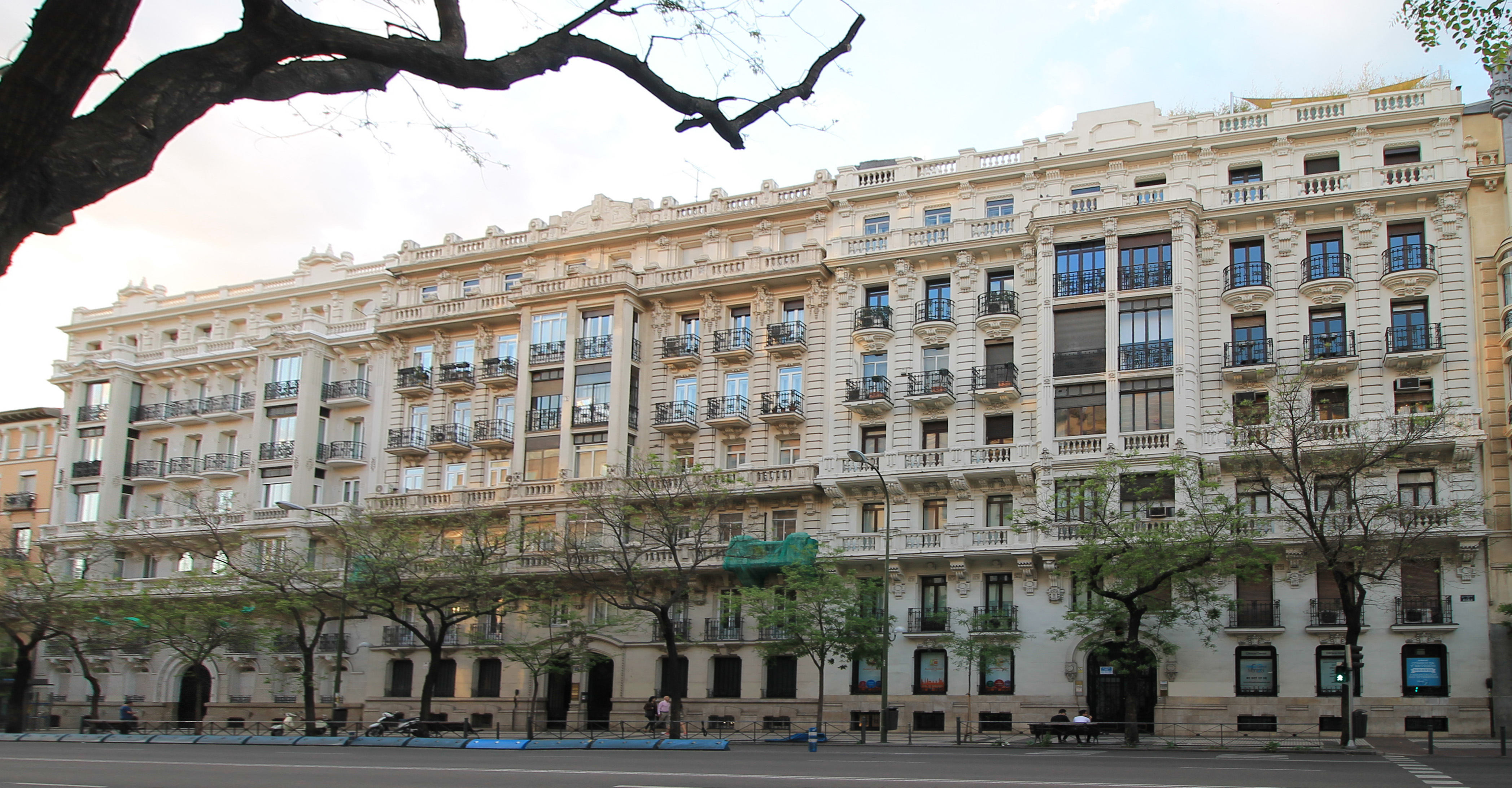 Buildings at 115, 117 and 119 Calle de Alcalá (street) in Madrid (Spain).